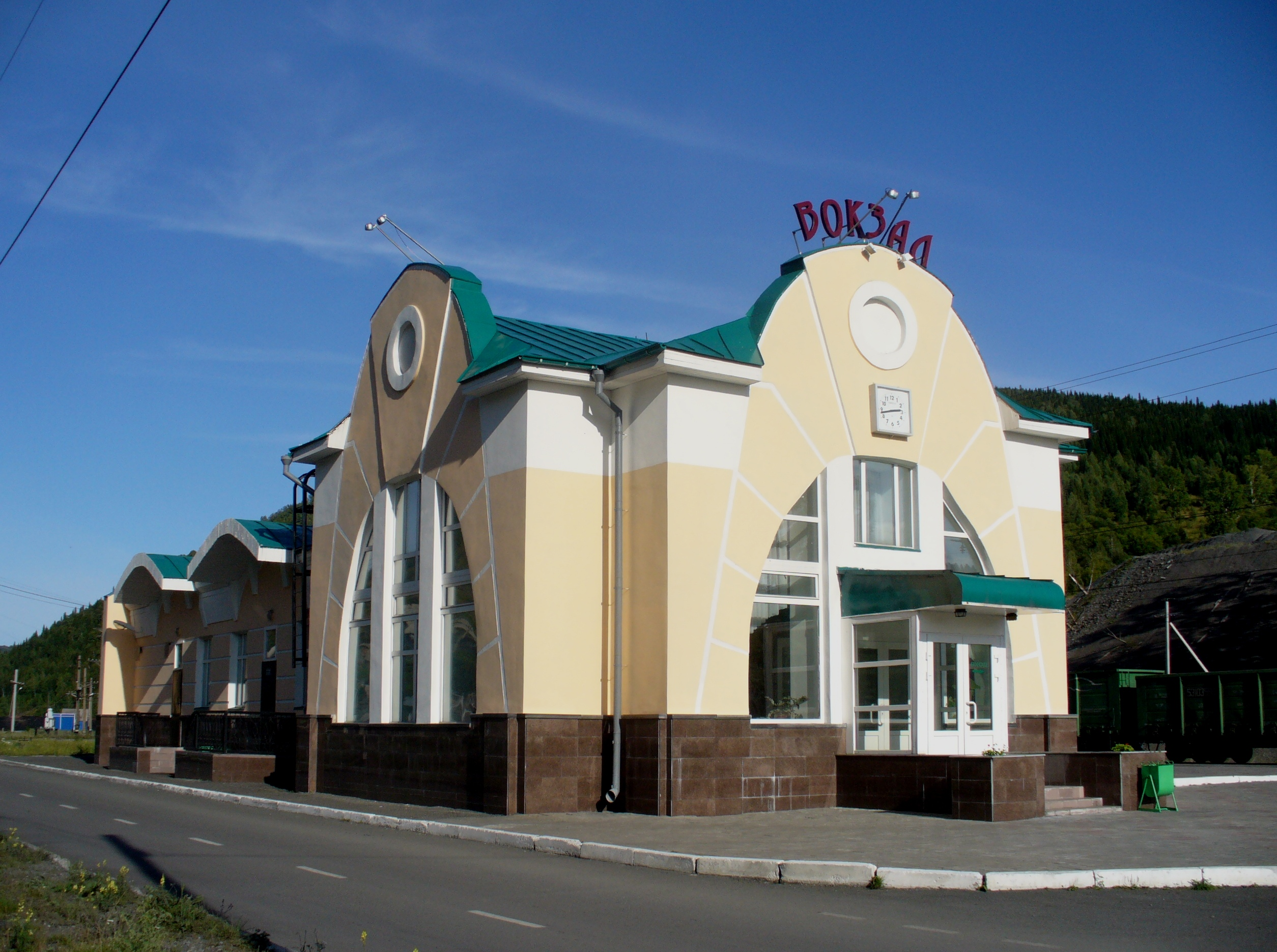 Tashtagol railway station, Tashtagol, Kemerovo oblast, Russia